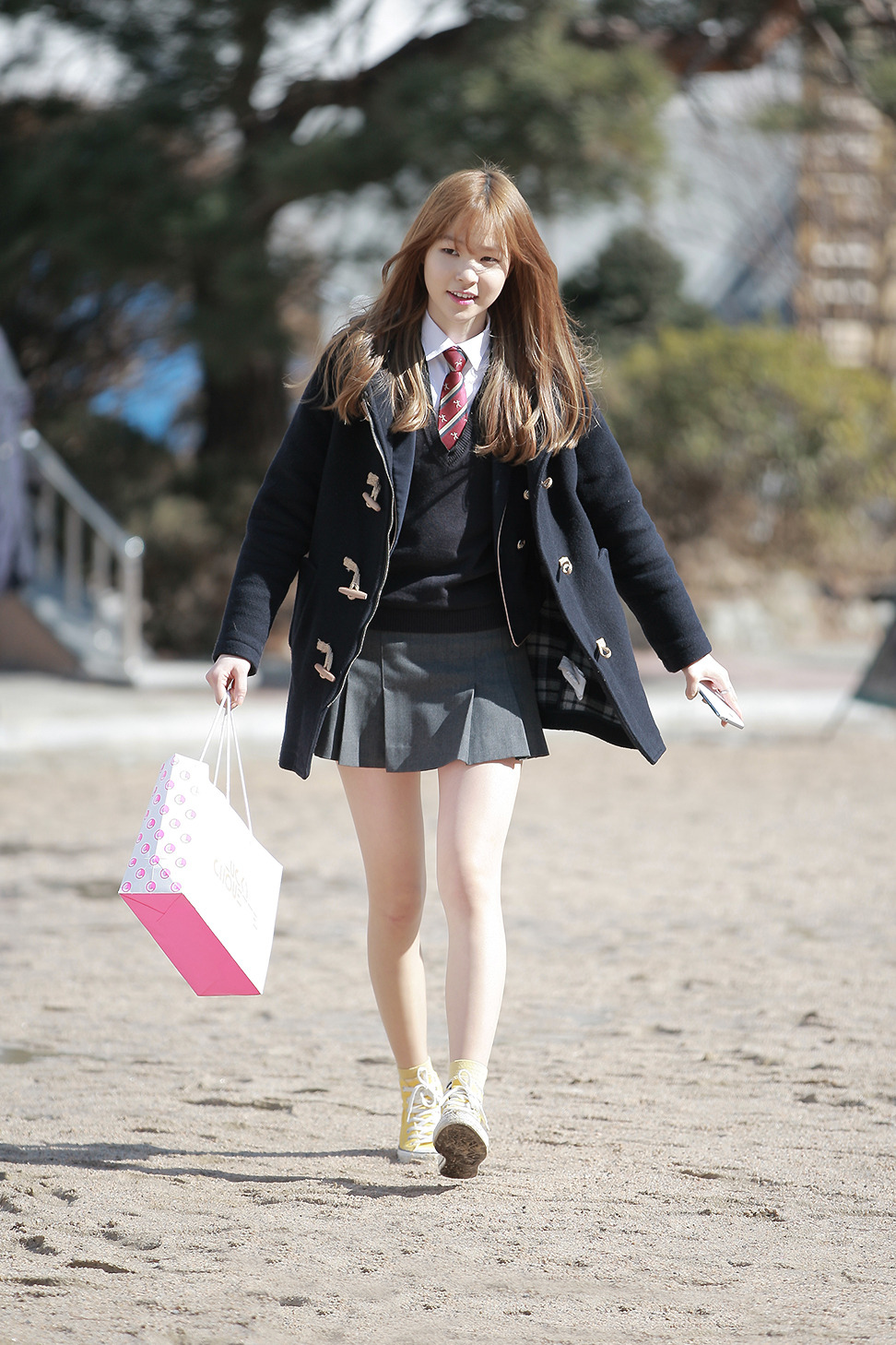 Jin Jung-seon at Hanlim Art High School.